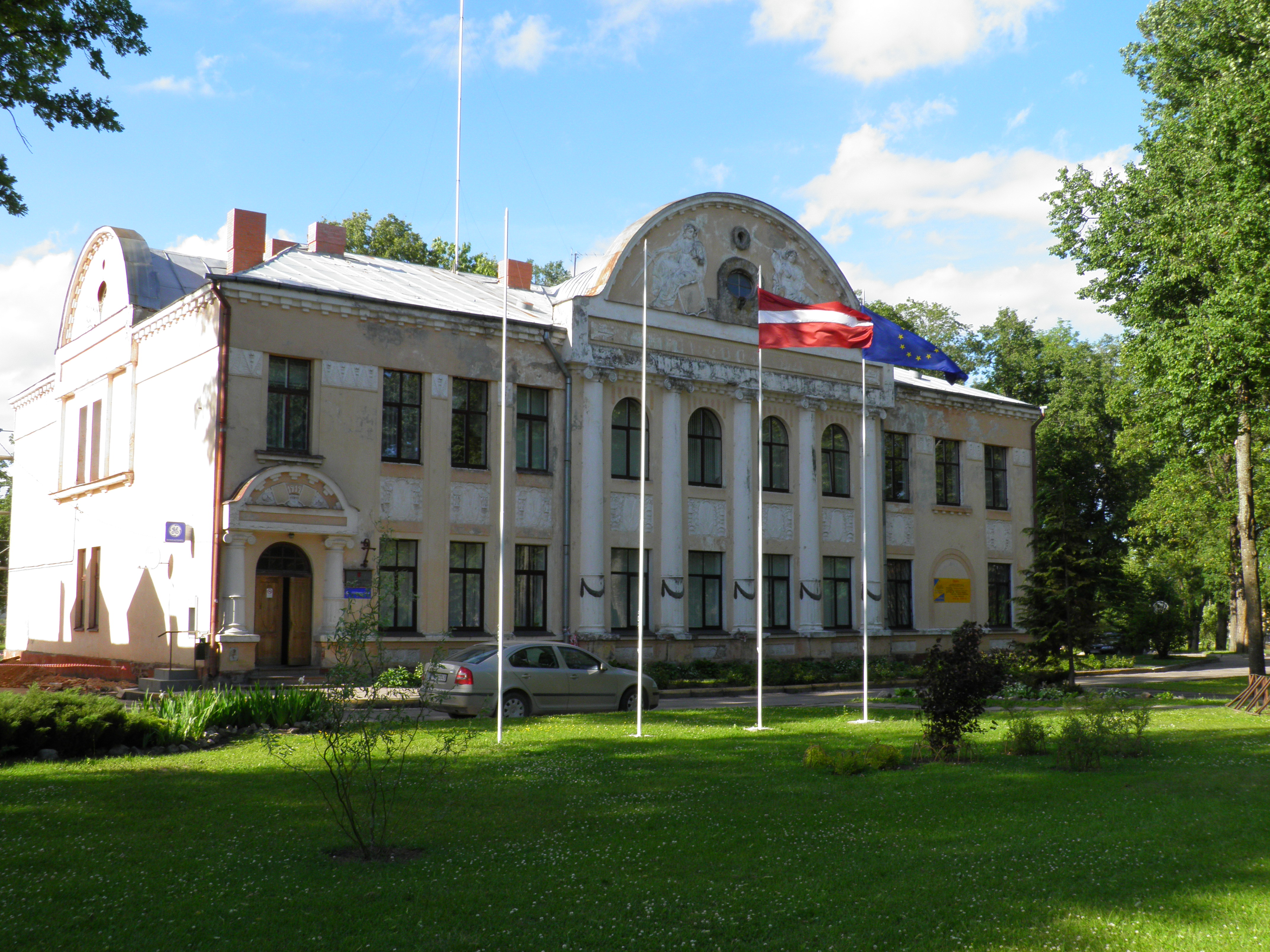 municipality